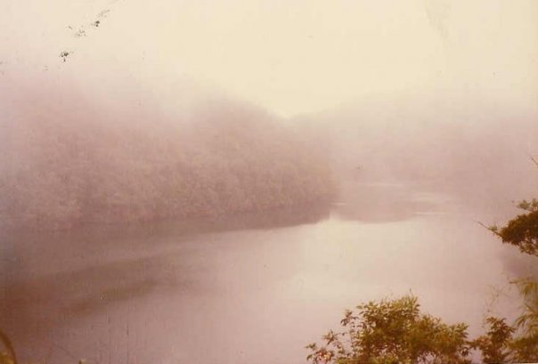 Lake Loloru — a volcanic crater lake, on Bougainville Island near Buin, Papua New Guinea. Sacred place of South Bougainvillians, who traditionally believe the souls of their dead go here upon death.